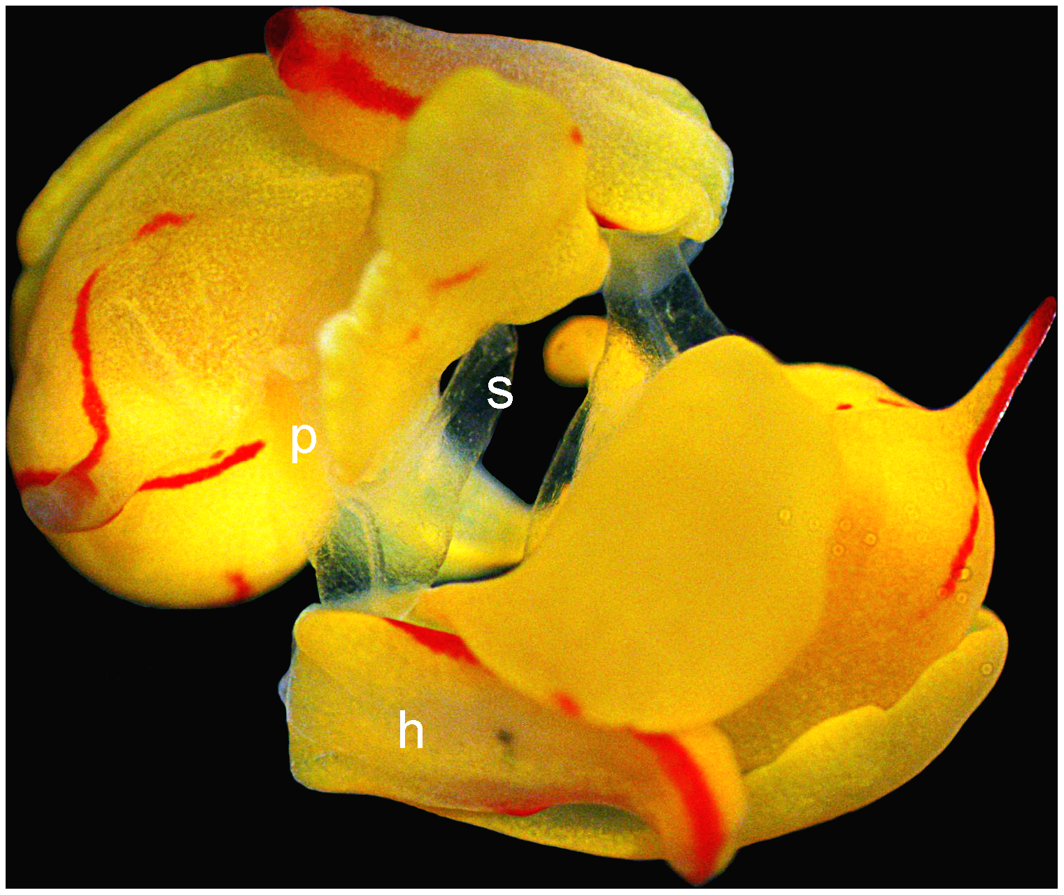 A photograph of the sea slug Siphopteron quadrispinosum engaged in reciprocal copulation. Caption from source: "The bipartite penises, which are everted as largely translucent structures at the right front of the head (h), are reciprocally inserted into the partner. While the actual penis (p) is inserted into the gonopore (located behind the right parapod), the penile stylets (s) are hypodermically inserted into the foot of the partner. Markings are only shown for the lower animal."